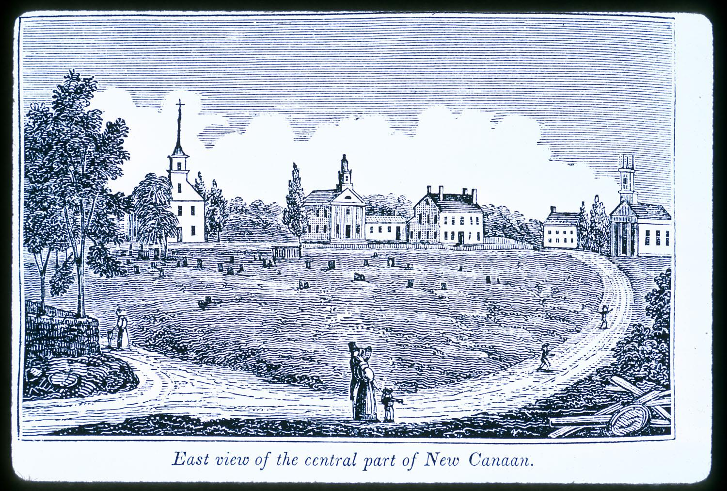 (According to Town Greens Web site, "wood block engraving from a sketch by John Warner Barber ... 1836" ) From page 386 of Barber's "Connecticut Historical Collections" (1838) Library Call No. 974.6 B23c